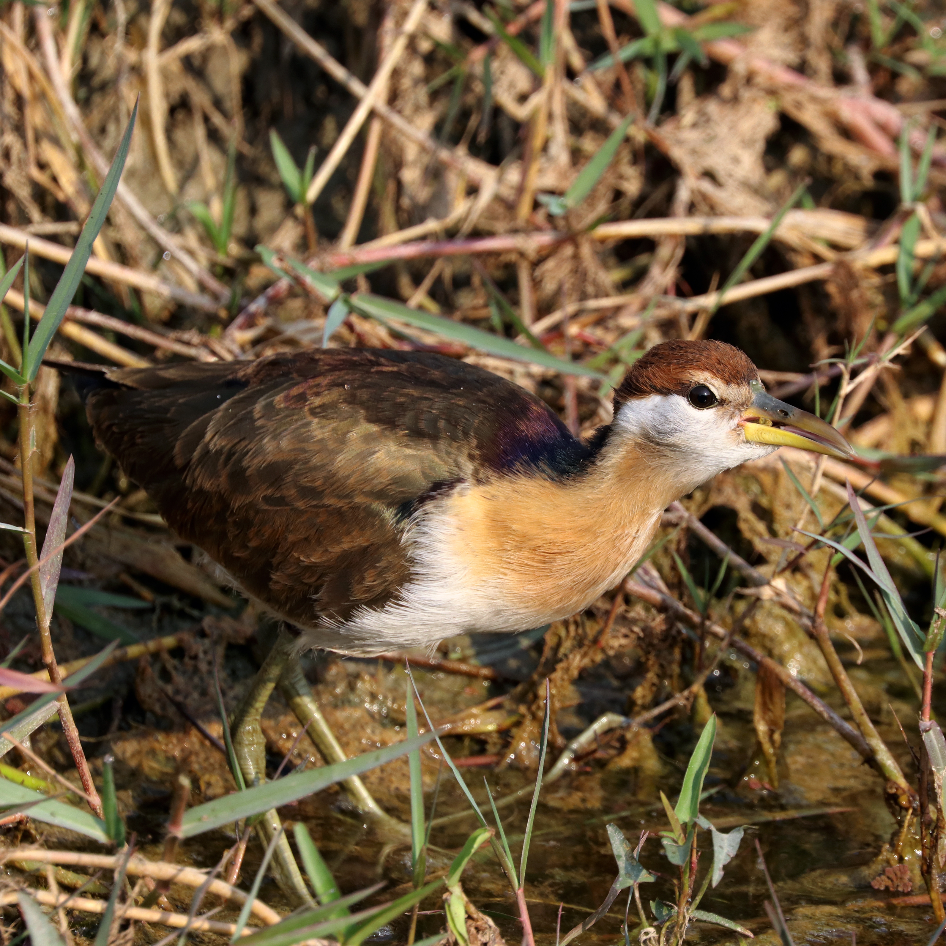 Bronze-winged jacana (Metopidius indicus) immature, Chambal River, UP, India. 8 of 8 in a sequence showing the bird deal with a grasshopper.